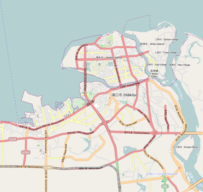 2013 Haikou city map, Hainan, China This map of Haikou, Hainan, China was created from OpenStreetMap project data, collected by the community. This map may be incomplete, and may contain errors. Don't rely solely on it for navigation.